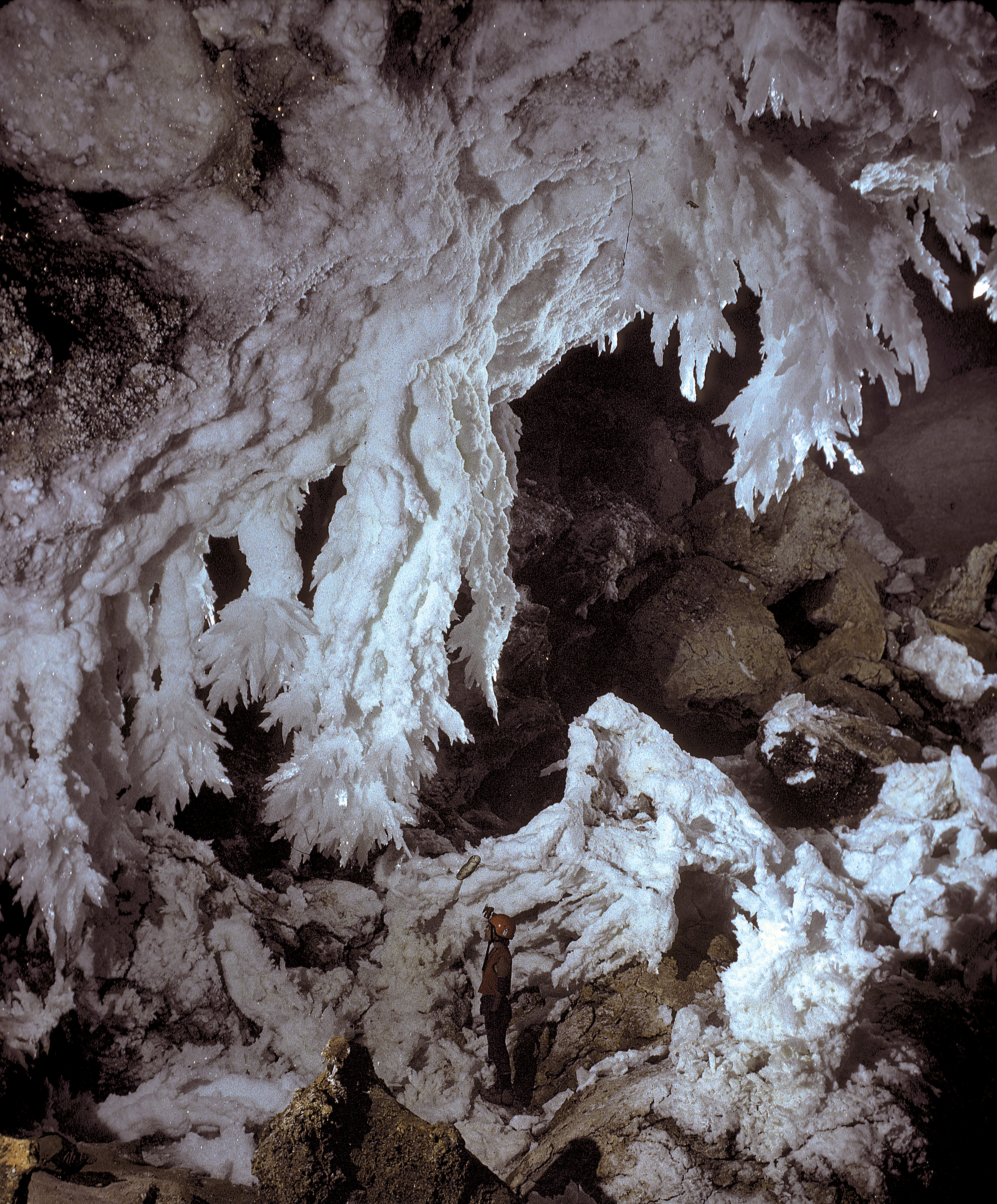 Photo by Dave Bunnell of the Chandelier Ballroom in Lechuguilla Cave. These are the largest known gypsum stalactites in the world. Each is tipped with a spray of gypsum crystals.